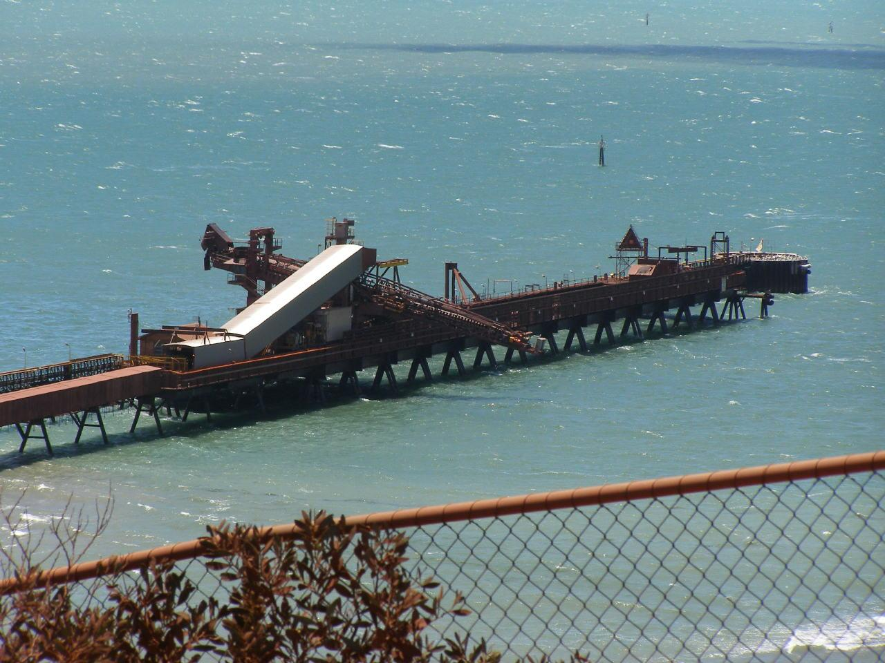 Ore handling at the port